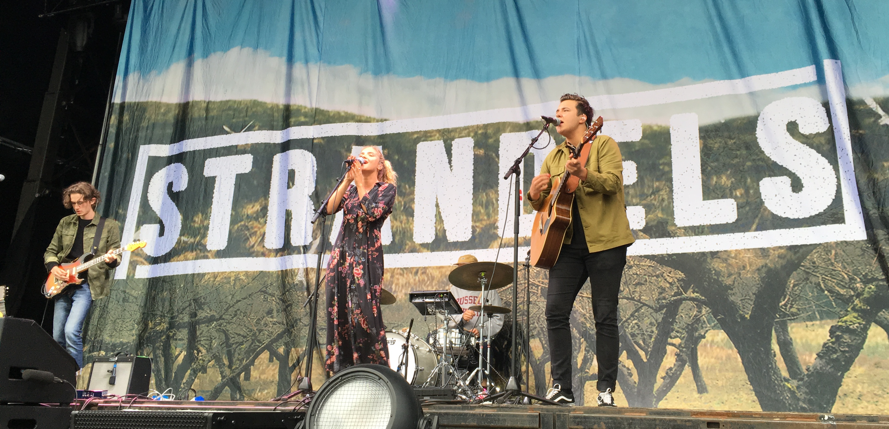 Swedish duo the Strandels perform as special guest before Per Gessle's concert in Grebbestad, Sweden on 21. July 2017. The Strandels record their music on Gessle's own label Space Station 12.